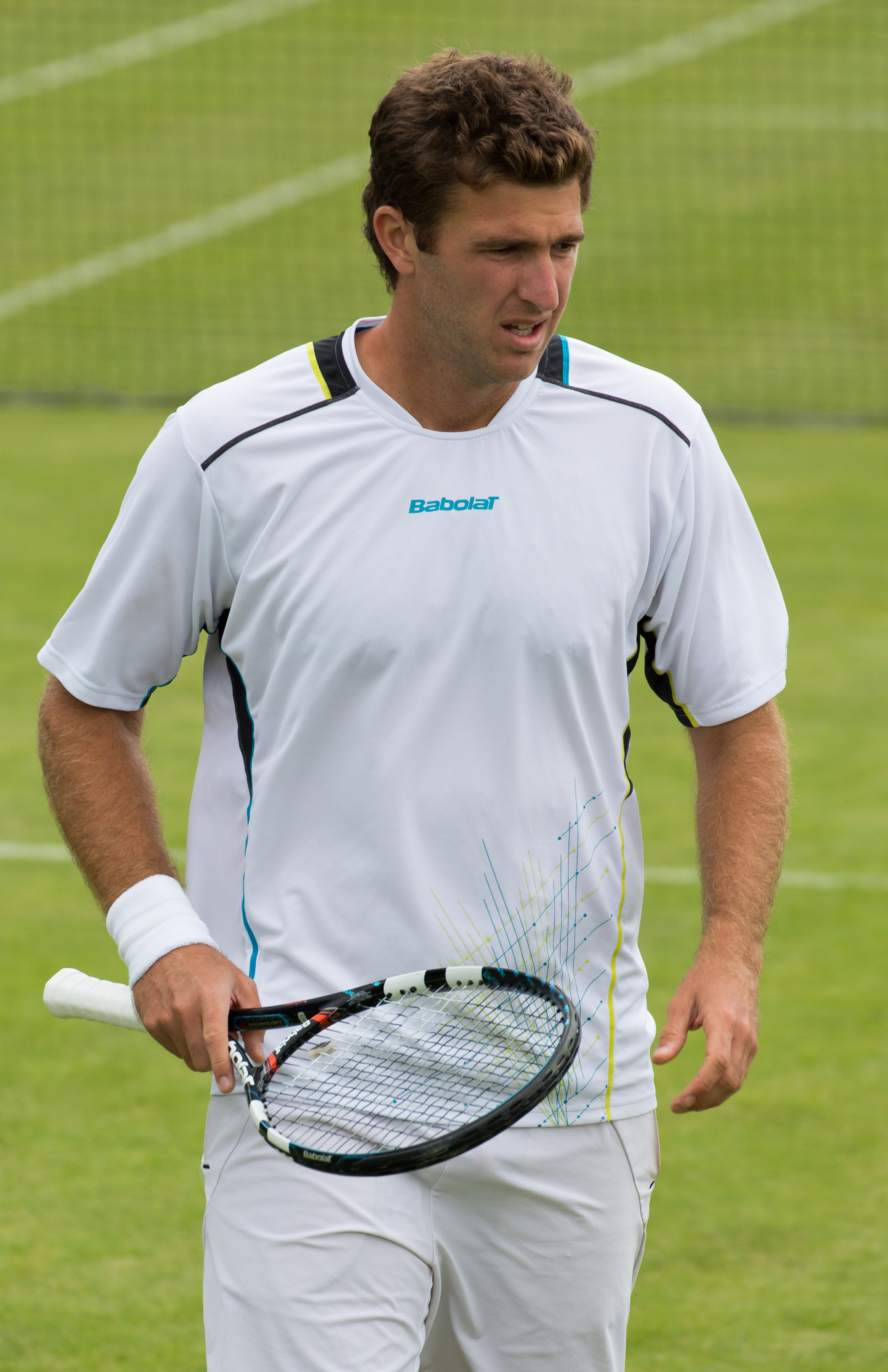 Fabrice Martin of France playing doubles with Purav Raja of India at the Aegon Surbiton Trophy in Surbiton, London.